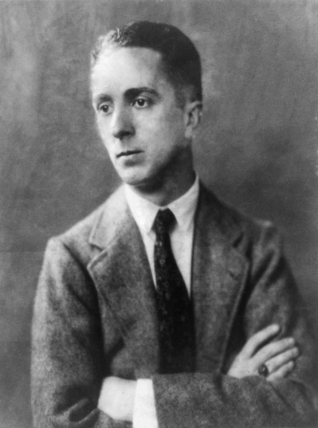 Norman Rockwell, half-length portrait, facing left, arms folded